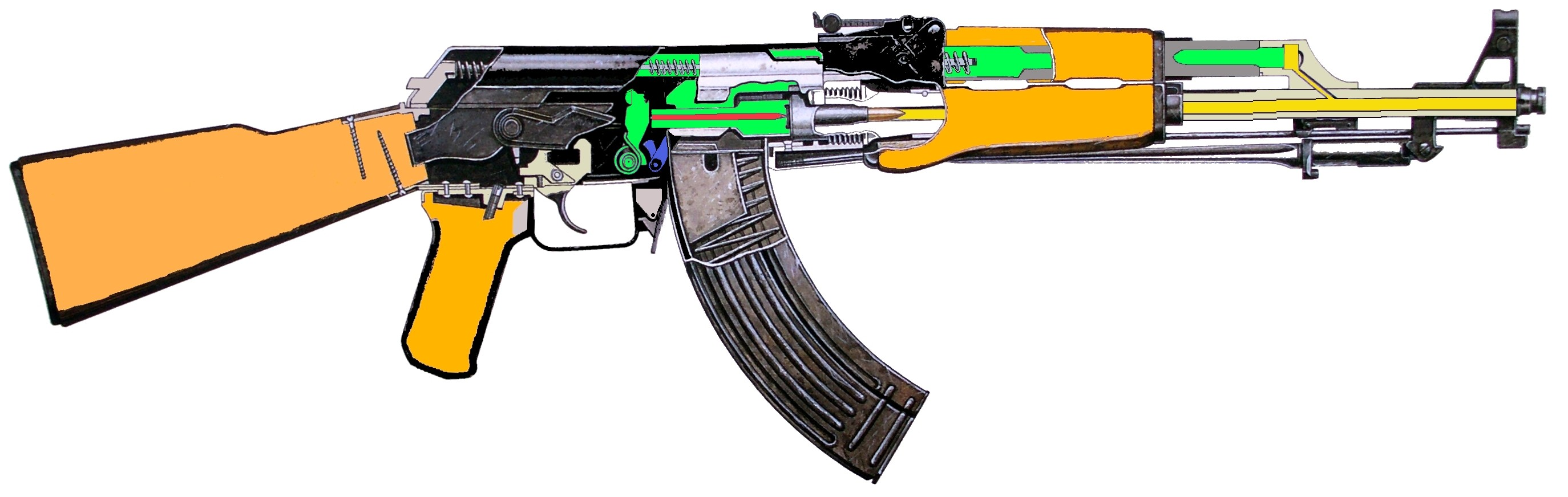 A schematic showing the workings of an assault rifle (Chinese type 56, AK47). The schematic was based on an image in the book: "Infantry weapons" by Chris Bishop.